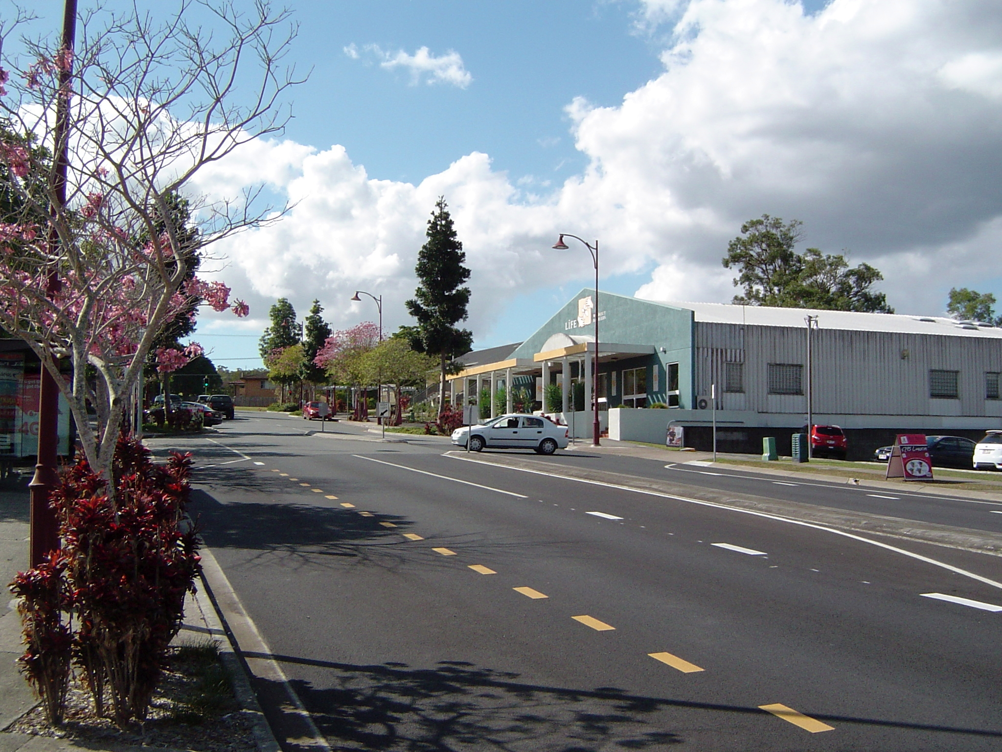 Photo of Fitzgerald Avenue at Springwood, Logan City, Queensland, Australia.